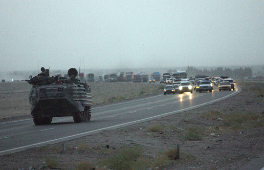 Traffic keeps back from an amphibious assault vehicle from "Team Gator," D Company, 2nd Assault Amphibian Battalion, Regimental Combat Team 5. Team Gator patrols the highways to keep them clear of improvised explosive devices and insurgent attackers. U.S. Marine Corps photo by Gunnery Sgt. Mark Oliva